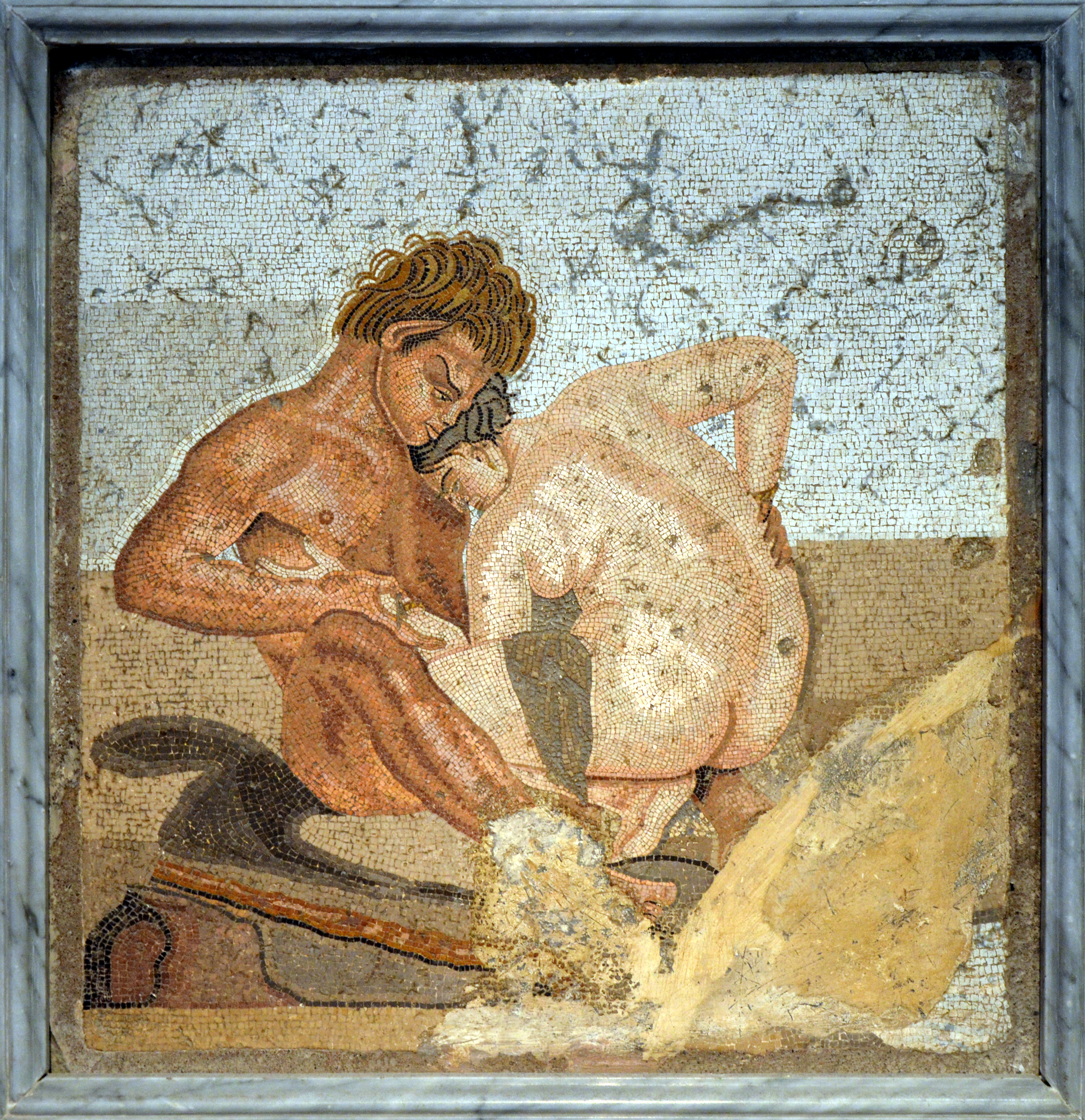 from the House of the Faun, Naples Archeological Museum